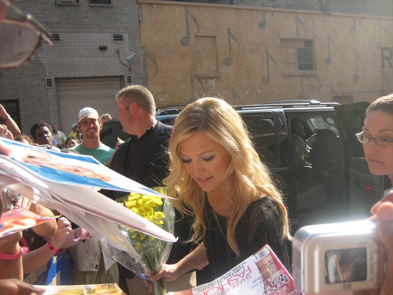 Kate Hudson after her appearance on the Late Show with David Letterman show promoting You Me and Dupree